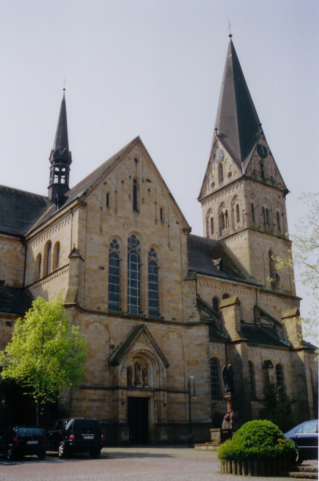 Roman Catholic St.-Agatha-Pfarrkirche (Saint Agatha church) in Mettingen, Kreis Steinfurt, North Rhine-Westphalia, Germany.